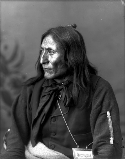 Photographic portrait of Crowfoot, Head Chief of the Blackfoot